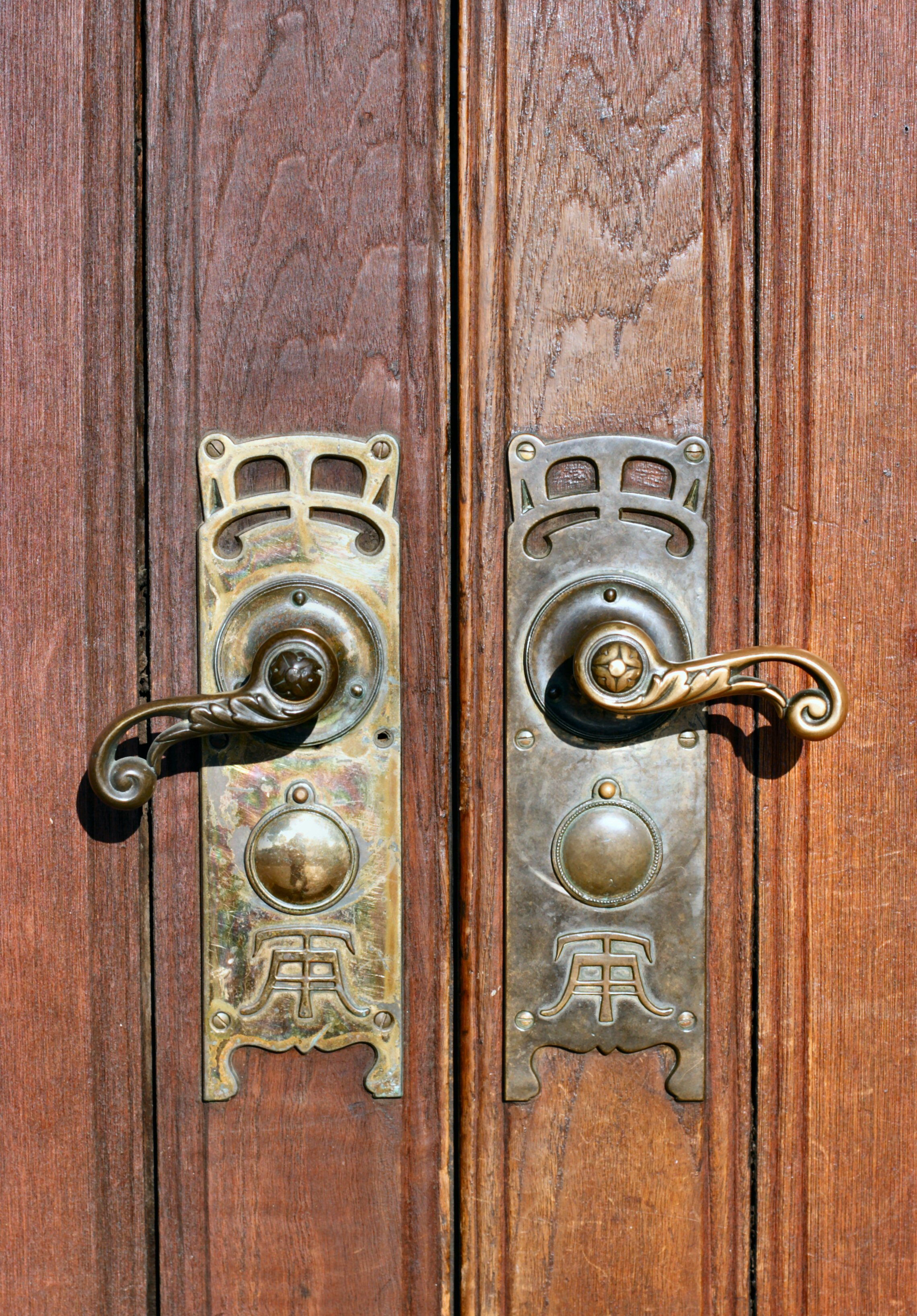 Door handles in the front door with Aarhus Toldkammers initials: AT on top of each other